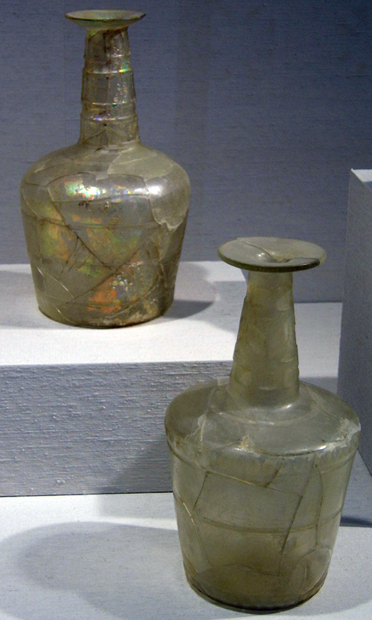 A carafe has been found in Nishapr (Neyshabur), kept in New York museum